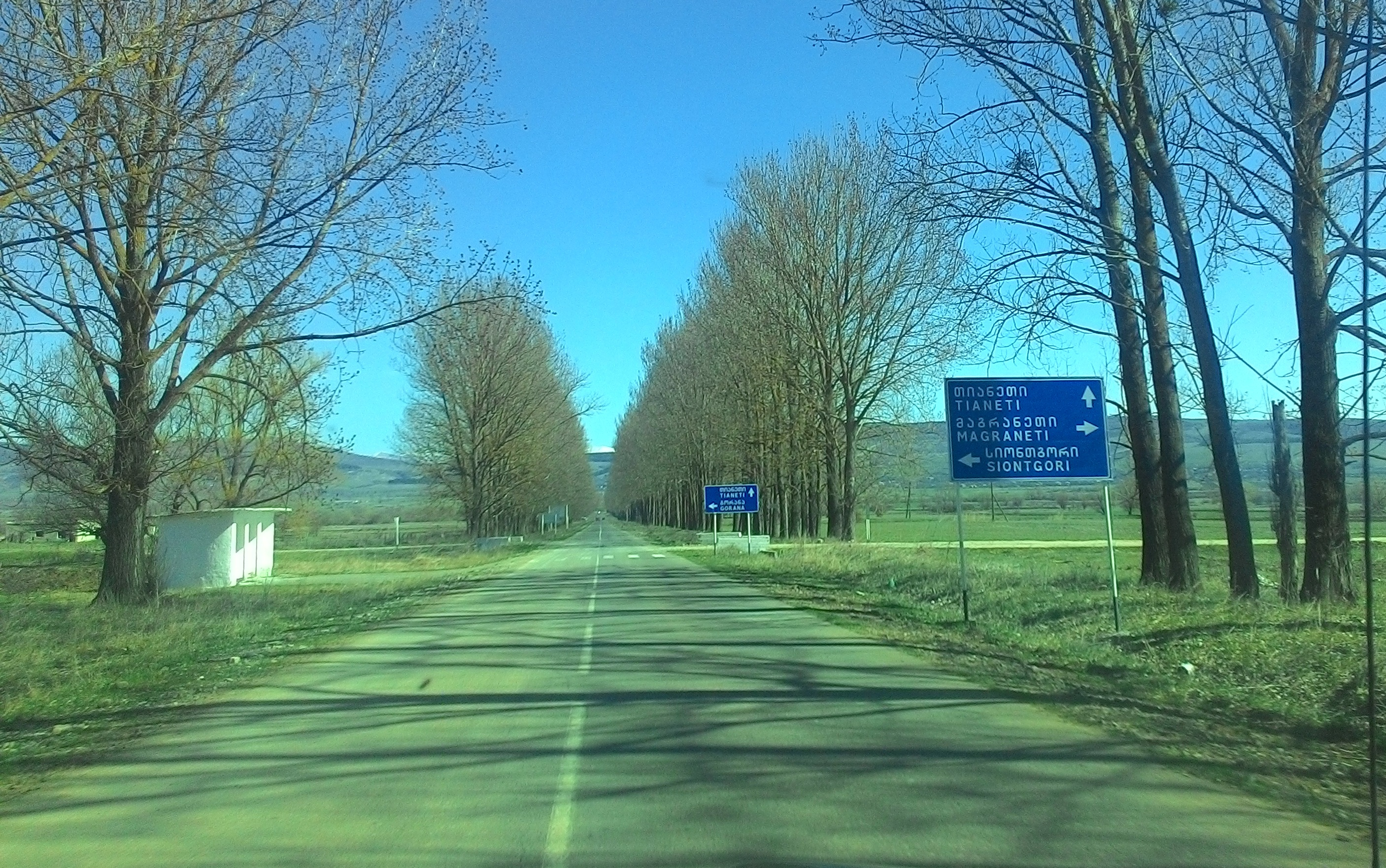 შ 30 route in the direction of Tianeti